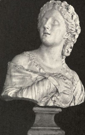 Portrait of Mademoiselle Raucourt (1756–1815), French actress